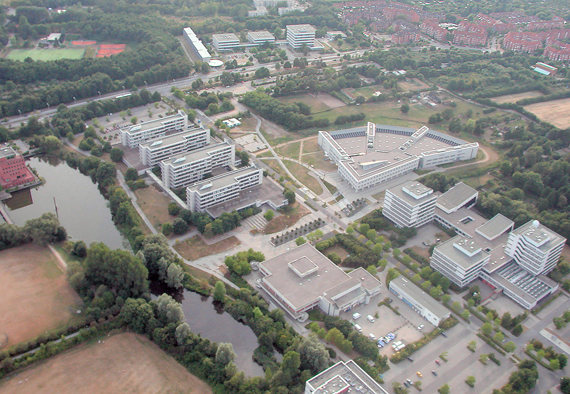 CAU Kiel, Germany, aerial photo of the UniBib